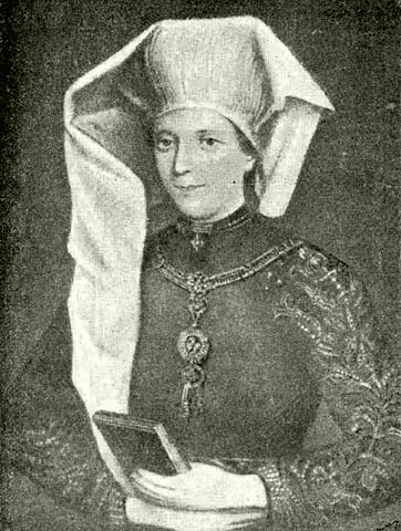 Beatrice Frankopan (1480-1510), Markgravine of Brandenburg-Ansbach (Germany), born as Princess of Krk, Senj and Modruš (Croatia)